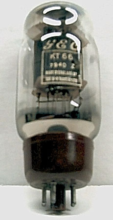 Original M-OV KT66 beam tetrode, late production - photo by Eric Barbour